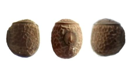 eggs of Neohirasea hongkongensis